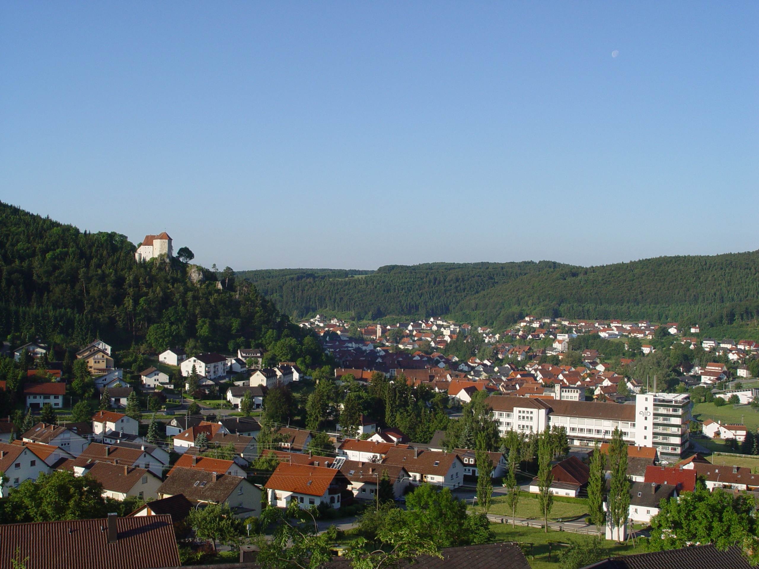 Straßberg with Burg Straßberg